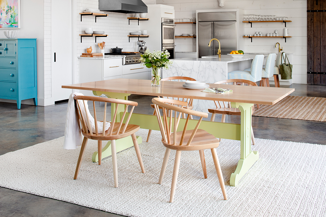 Inga Trestle Dining Table in Sprout, Top Finish Maple. Judy Chair shown in Natural Maple. Made by Maine Cottage.